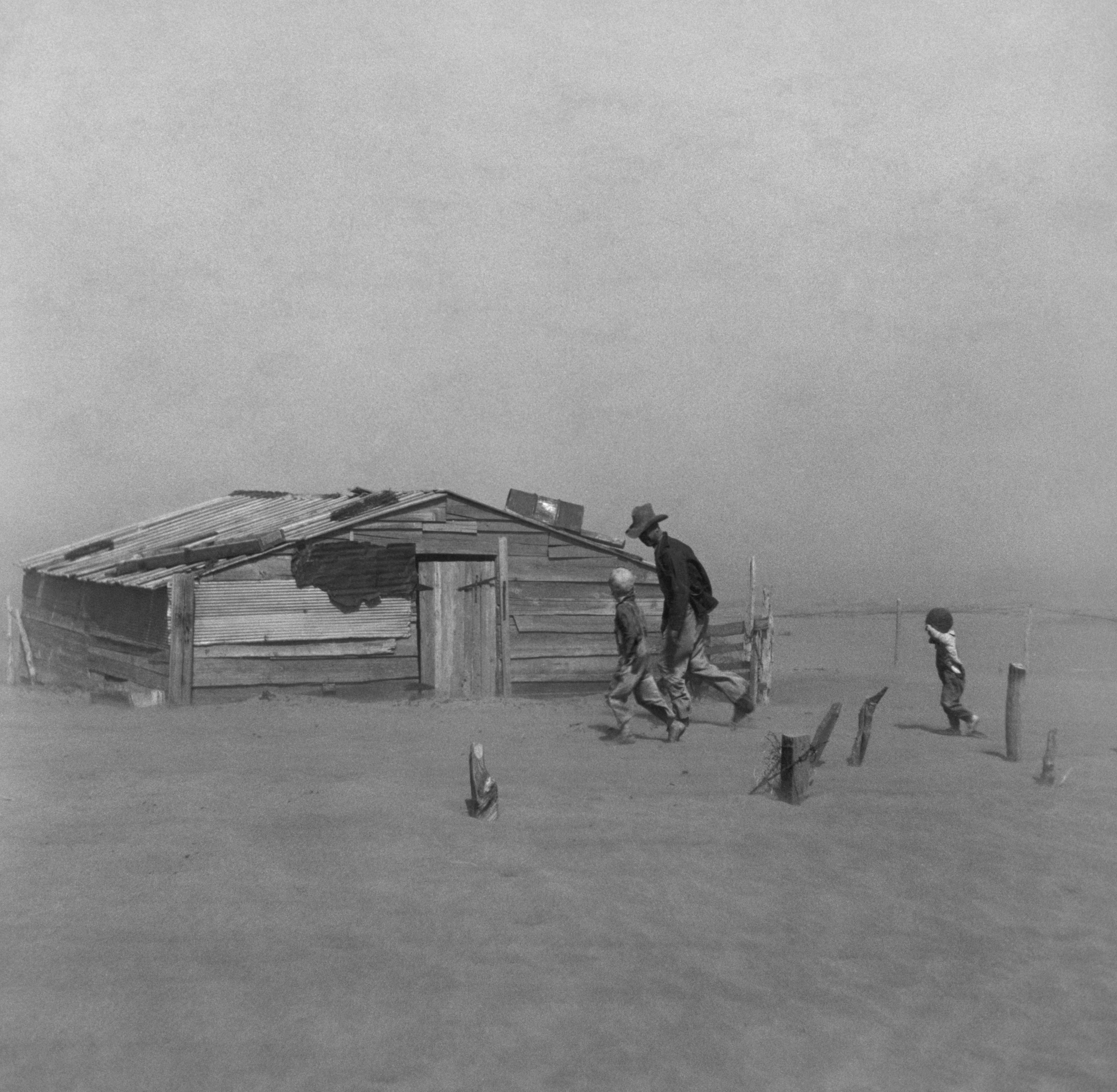 Farmer and sons walking in the face of a dust storm. Cimarron County, Oklahoma.